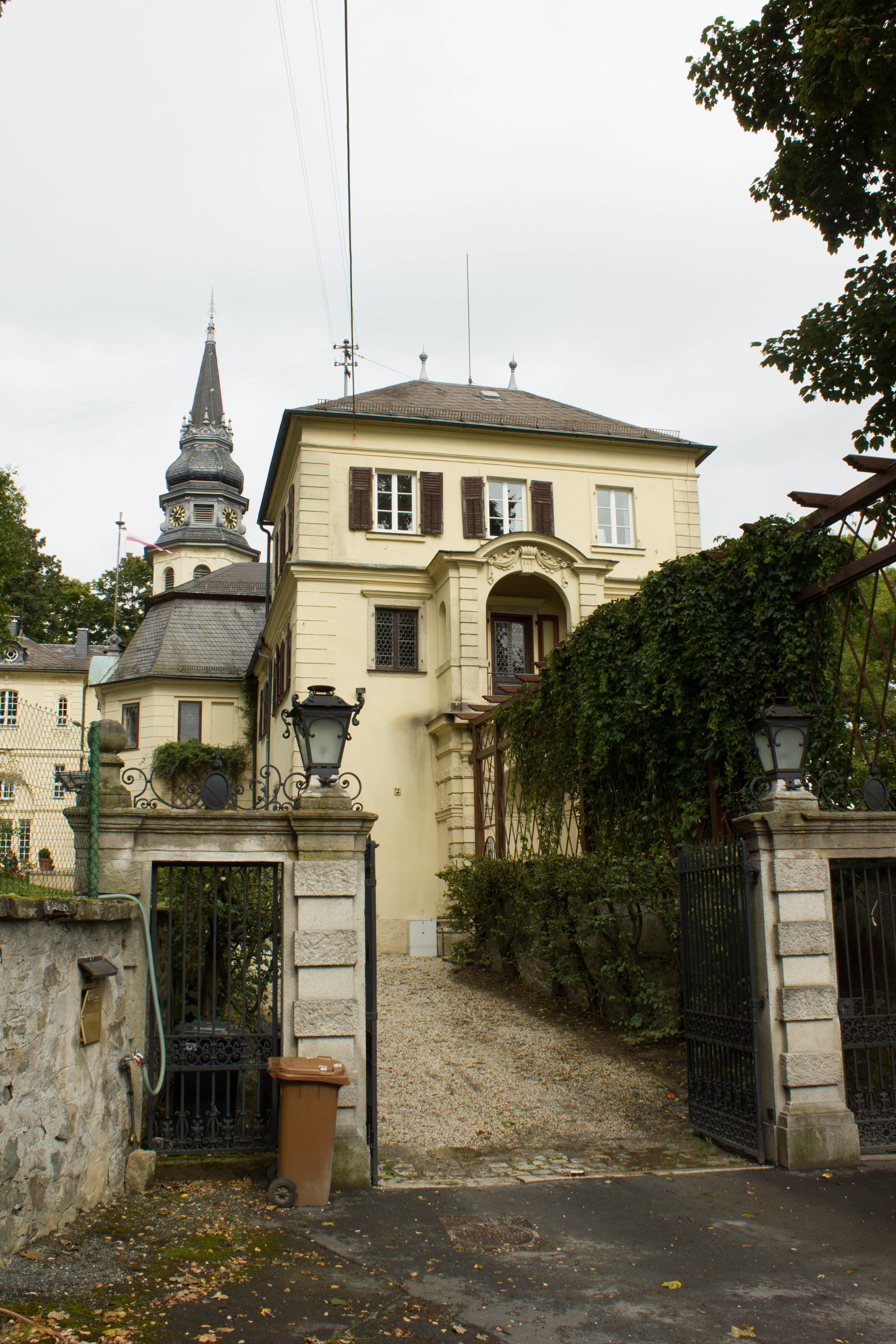 Issigau Reitzenstein 7 1/2